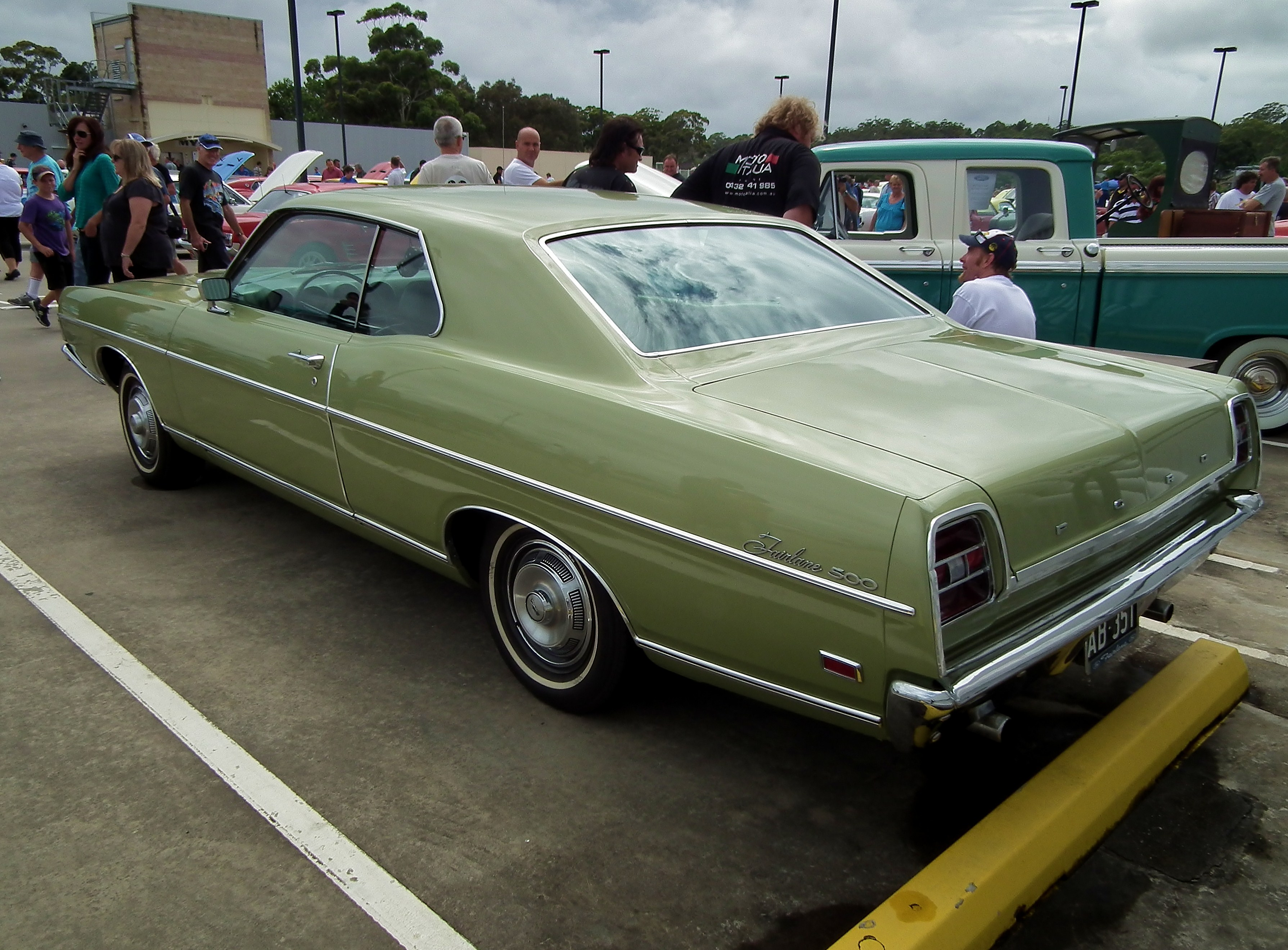 1969 Ford Fairlane 500 coupe. Taken at the 2012 New South Wales All American Day, held at Castle Towers Shopping Centre, Castle Hill, Sydney.